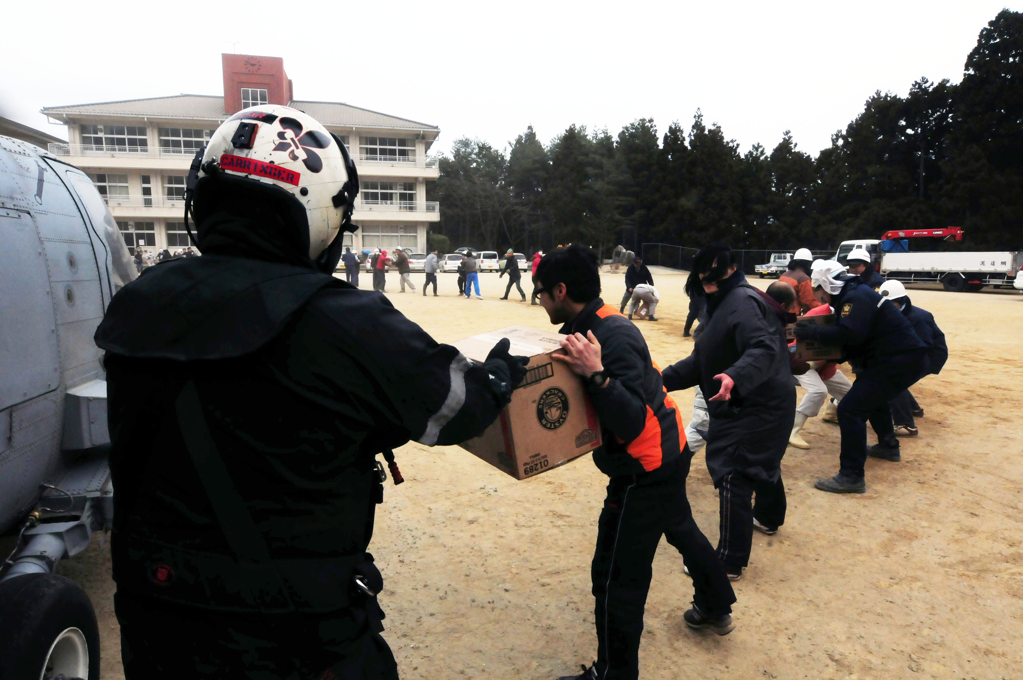 NORTHERN JAPAN (March 15, 2011) Naval Aircrewman 2nd Class Chris Carringer, assigned to the Black Knights of Helicopter Anti-Submarine Squadron (HS) 4, passes a Japanese citizen a case of fresh water out of an HH-60H Sea Hawk helicopter. after the 9.0-magnitude earthquake and subsequent tsunami. Ships and aircraft from the Ronald Reagan Carrier Strike Group are conducting search and rescue operations and resupply missions as directed in support of Operation Tomodachi throughout northern Japan to render assistance in the aftermath of a 9.0 magnitude earthquake and subsequent tsunami. (U.S. Navy photo by Mass Communication Specialist 3rd Class Alexander Tidd/Released)